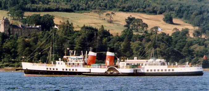 The PS Waverley lying off Brodick Castle on the Isle of Arran, in the Firth of Clyde, Scotland.